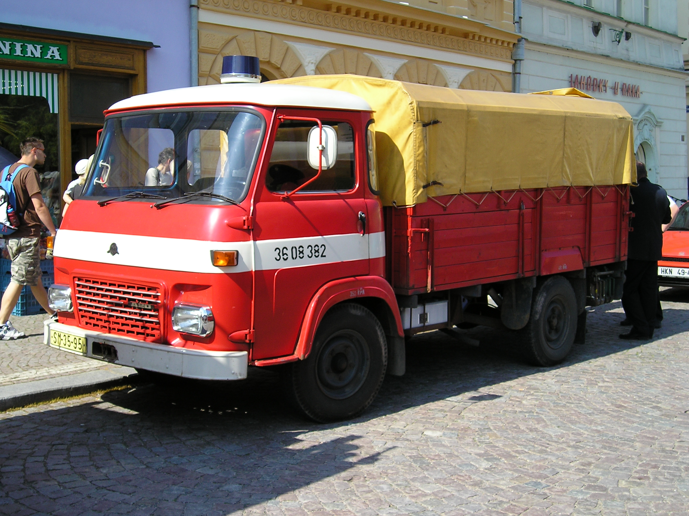 Avia A20-based fire engine.